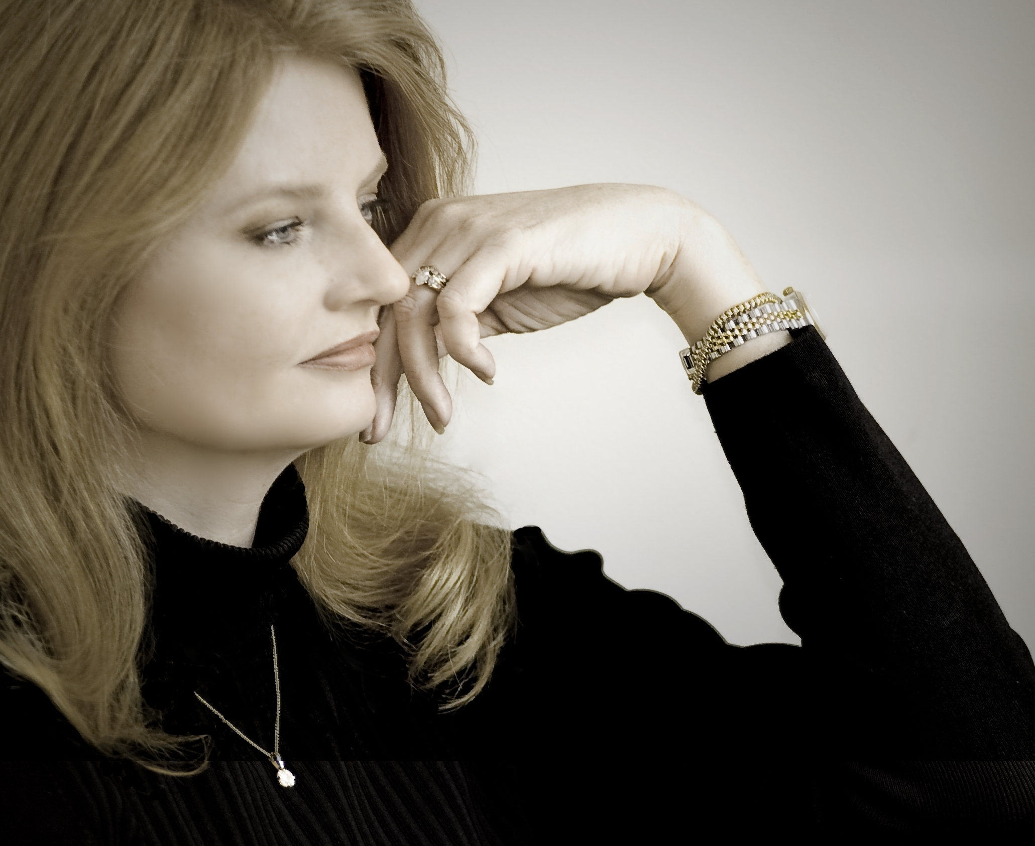 Female Neurologist Louann Brizendine